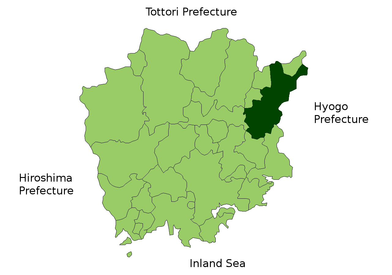 Map of Okayama Prefecture highlighting Mimasaka city. Borders of map as of July, 2006. (blank map used from [1]) See also Image:OkayamaMapCurrent.png.